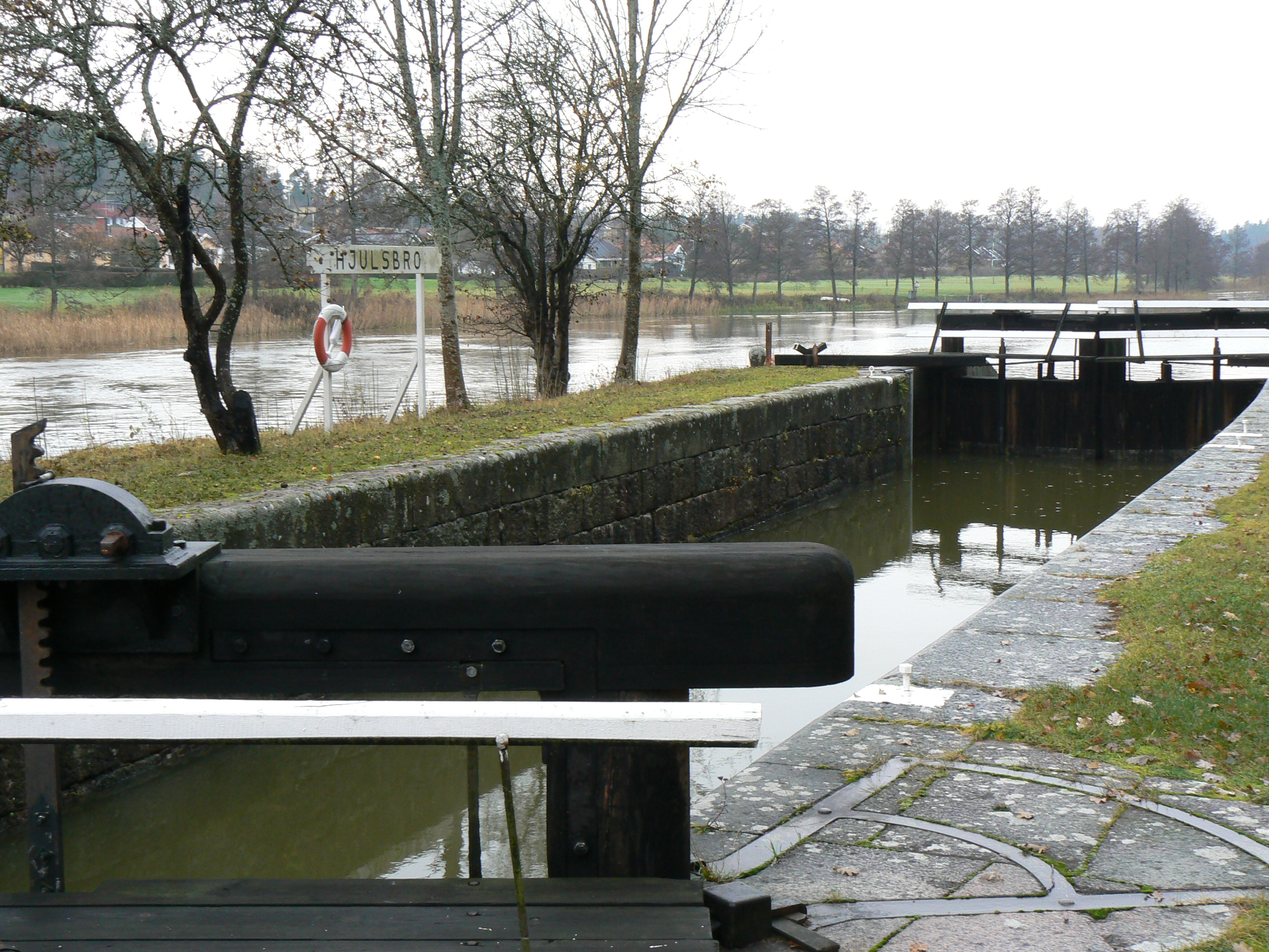 Lock at Hjulsbro on Kinda canal in Sweden. Photo by Skvattram 2006-11-18.